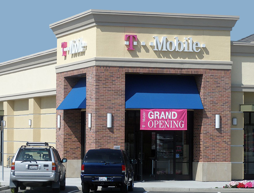 A T-Mobile store at the San Jose MarketCenter shopping center in San Jose, California. This store closed in spring 2019. Photographed by user Coolcaesar on May 6, en:2006.